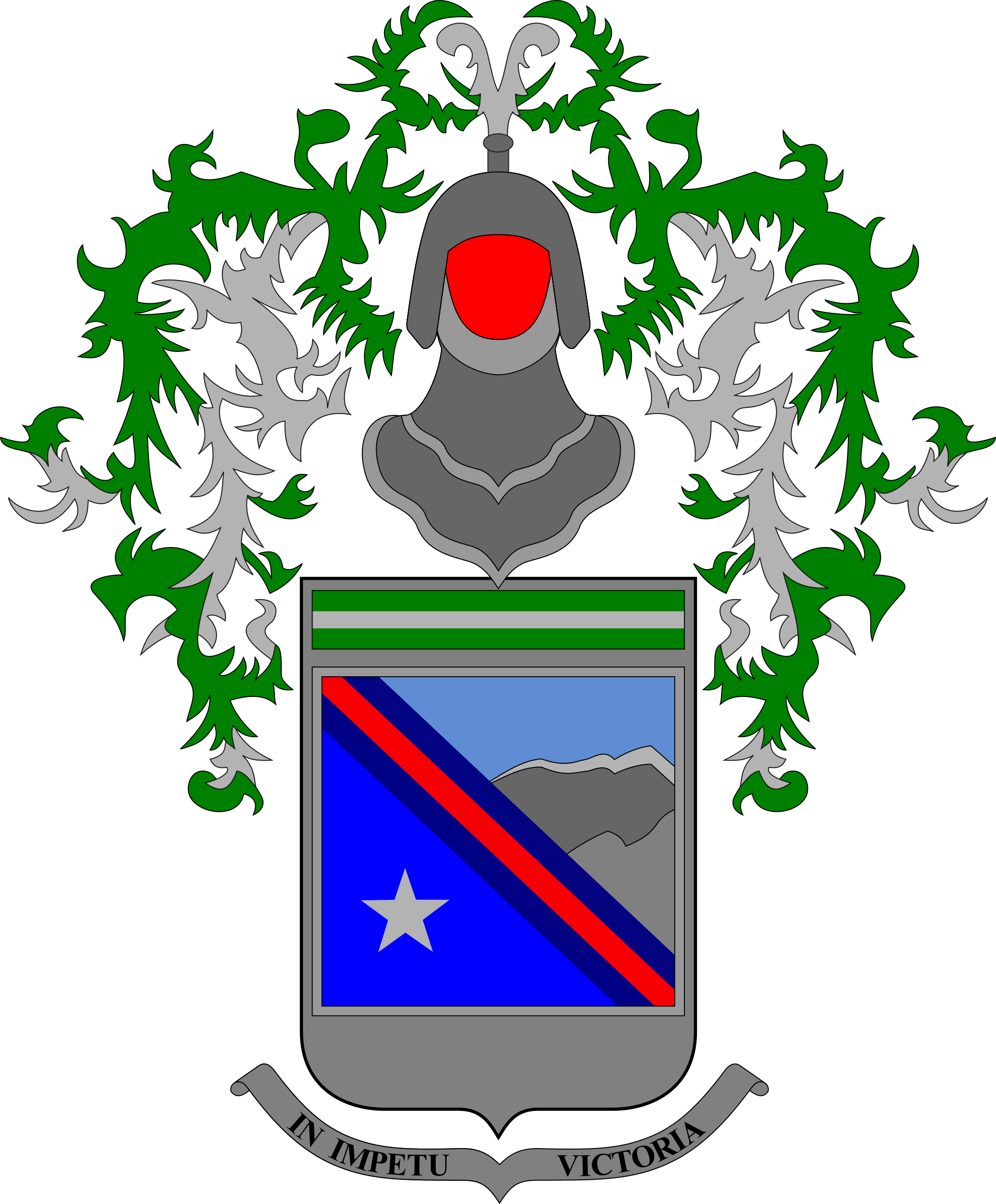 Coat of Arms of the 54th Infantry Regiment "Umbria", Royal Italian Army, 1939